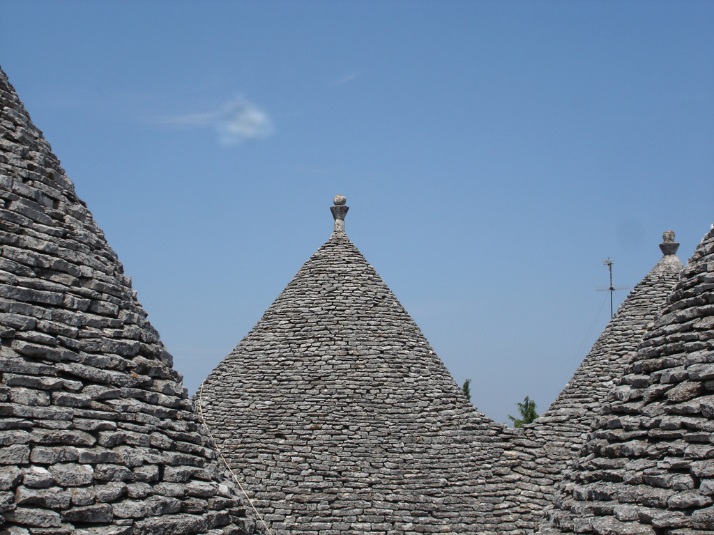 Chiancarelle-clad roofs in Alberobello, province of Bari, Italy.